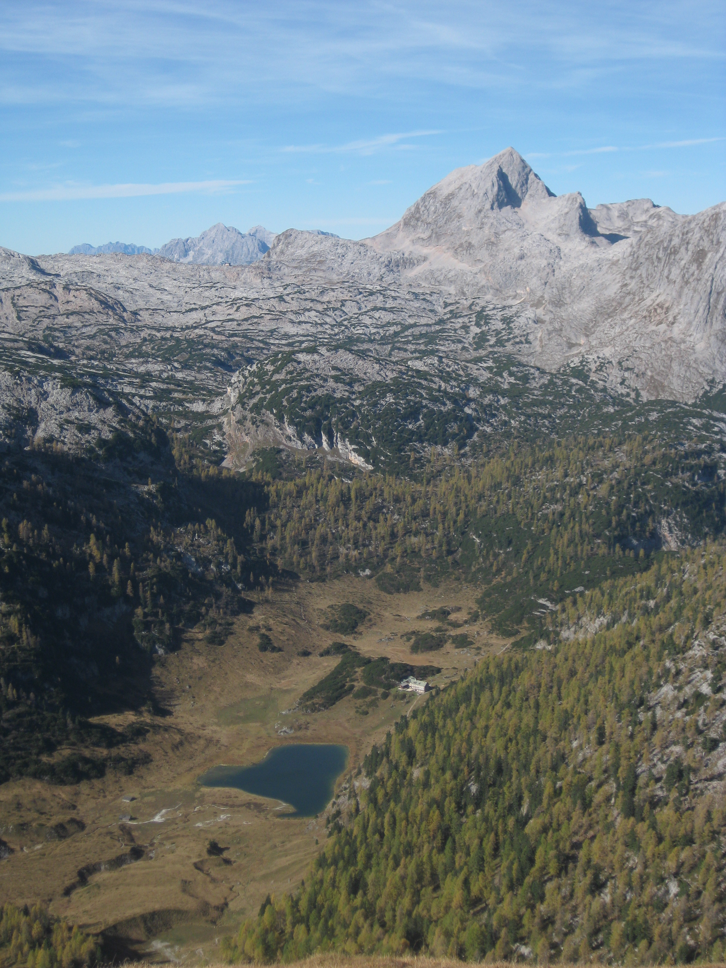 Funtensee-uvala, a karst relief in Berchtesgaden National Park, Bavaria (Northern Limestone Alps). The lake Funtensee – as lakes in uvalas generally – is an exception rather than the rule. Großer Hundstod (2594 m) in the background. Point of view below Stuhljoch (ca. 2200 m), heading west-northwest.